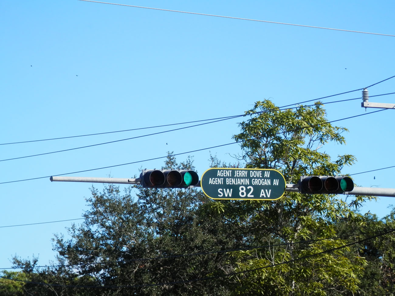 At Southwest 124th Street in Pinecrest, Florida, the Southwest 82nd Avenue sign with honoroary names of Jerry Dove and Benjamin Grogan, FBI agents killed in the 1986 FBI Miami shootout a tenth of a mile (170 meters) north.